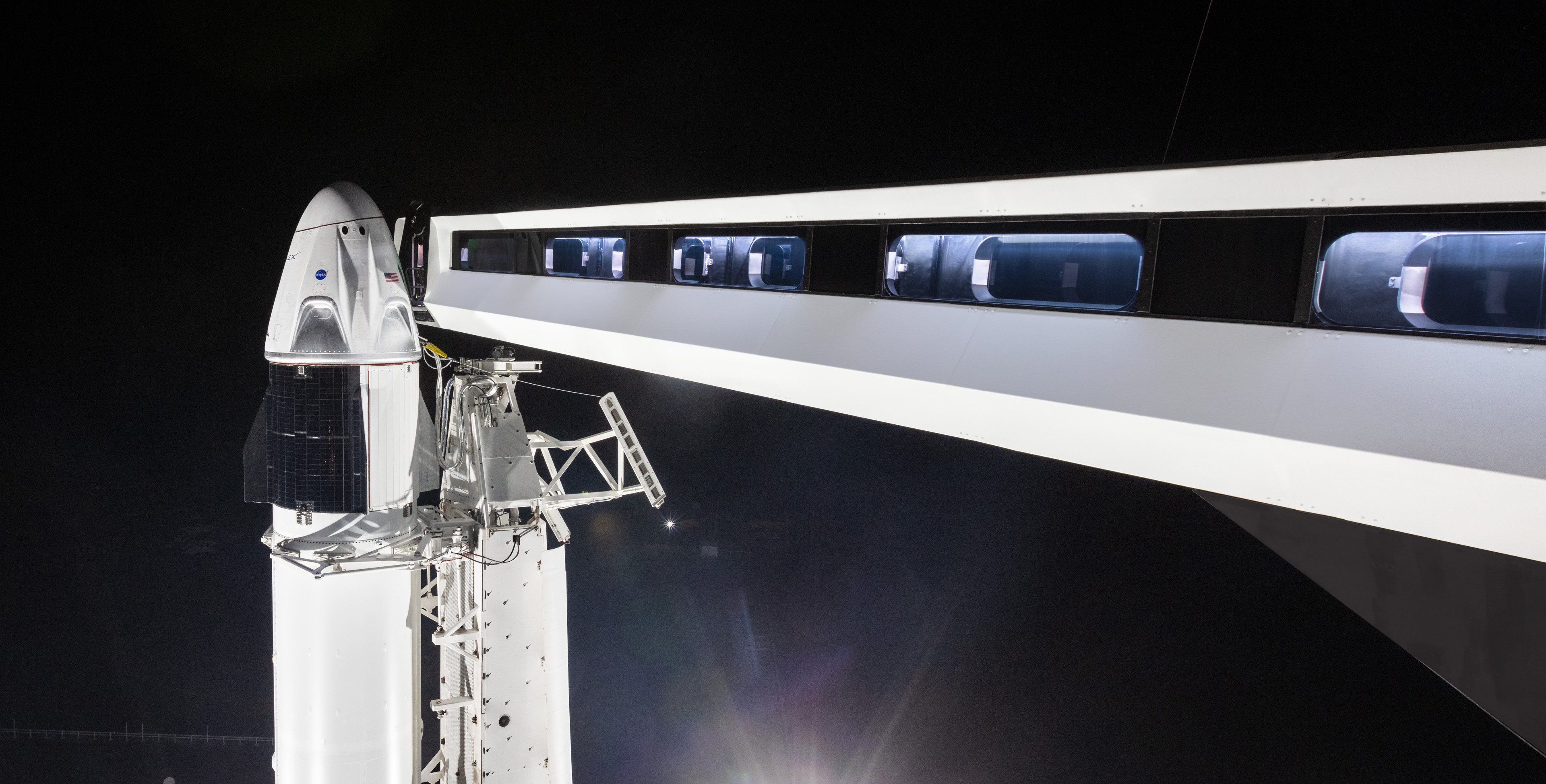 Crew Demo-1 Mission